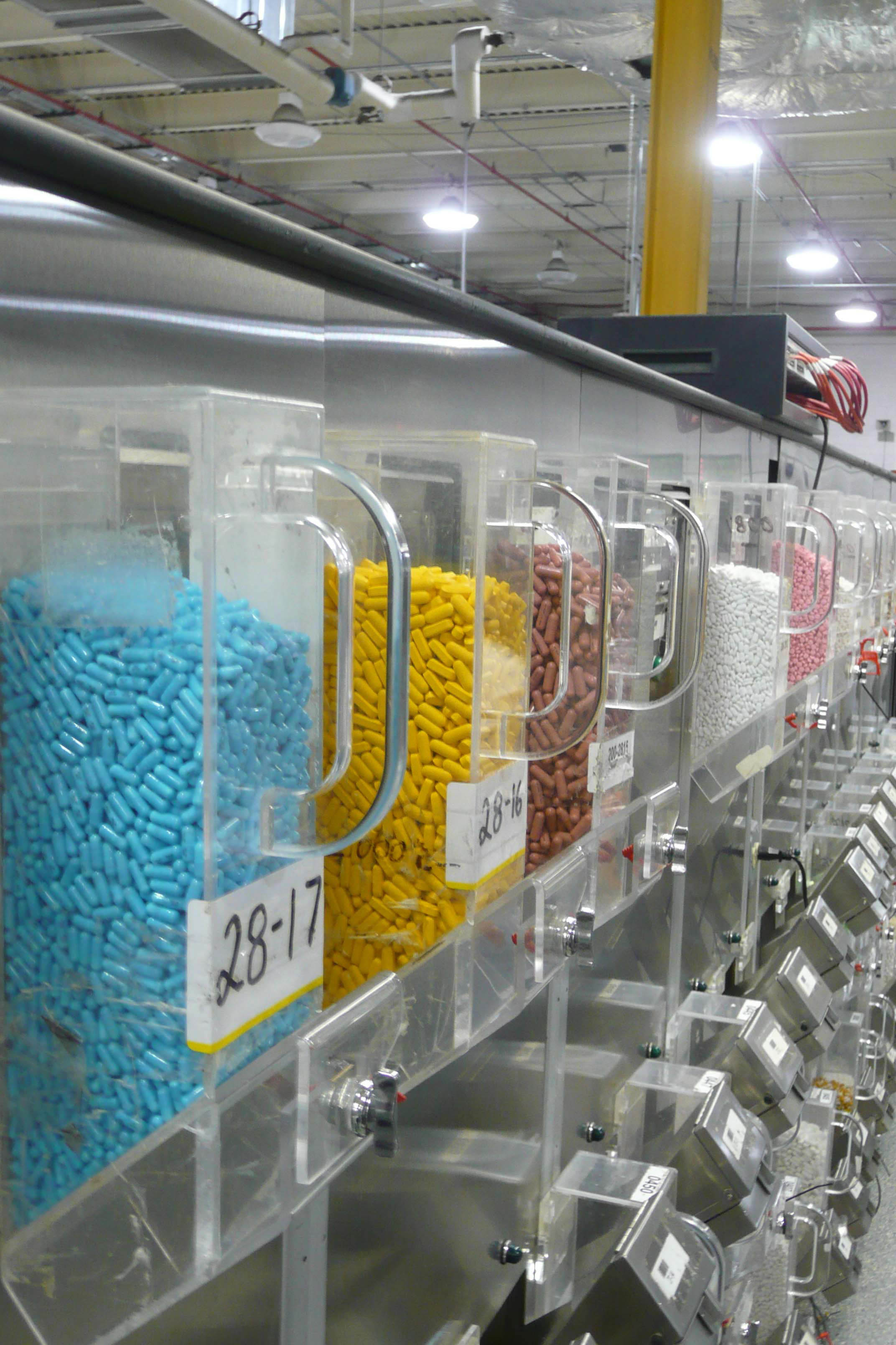 This photo shows the platform where canisters containing pharmaceuticals are loaded into an automatic dispensing machine at a mail order pharmacy.